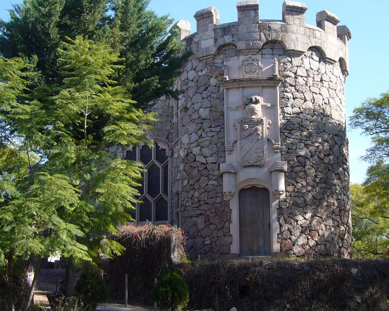 Castillo Douglas, Ags.